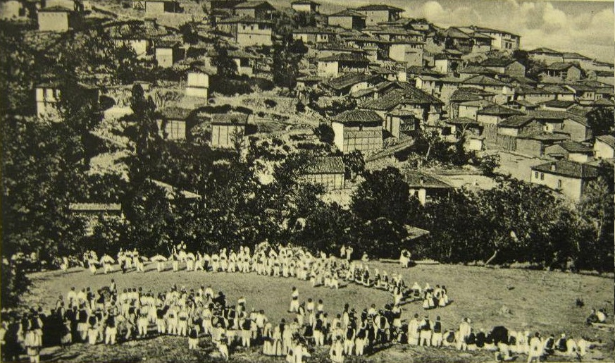 Old photo of Čučer Sandevo in Macedonia before 1920